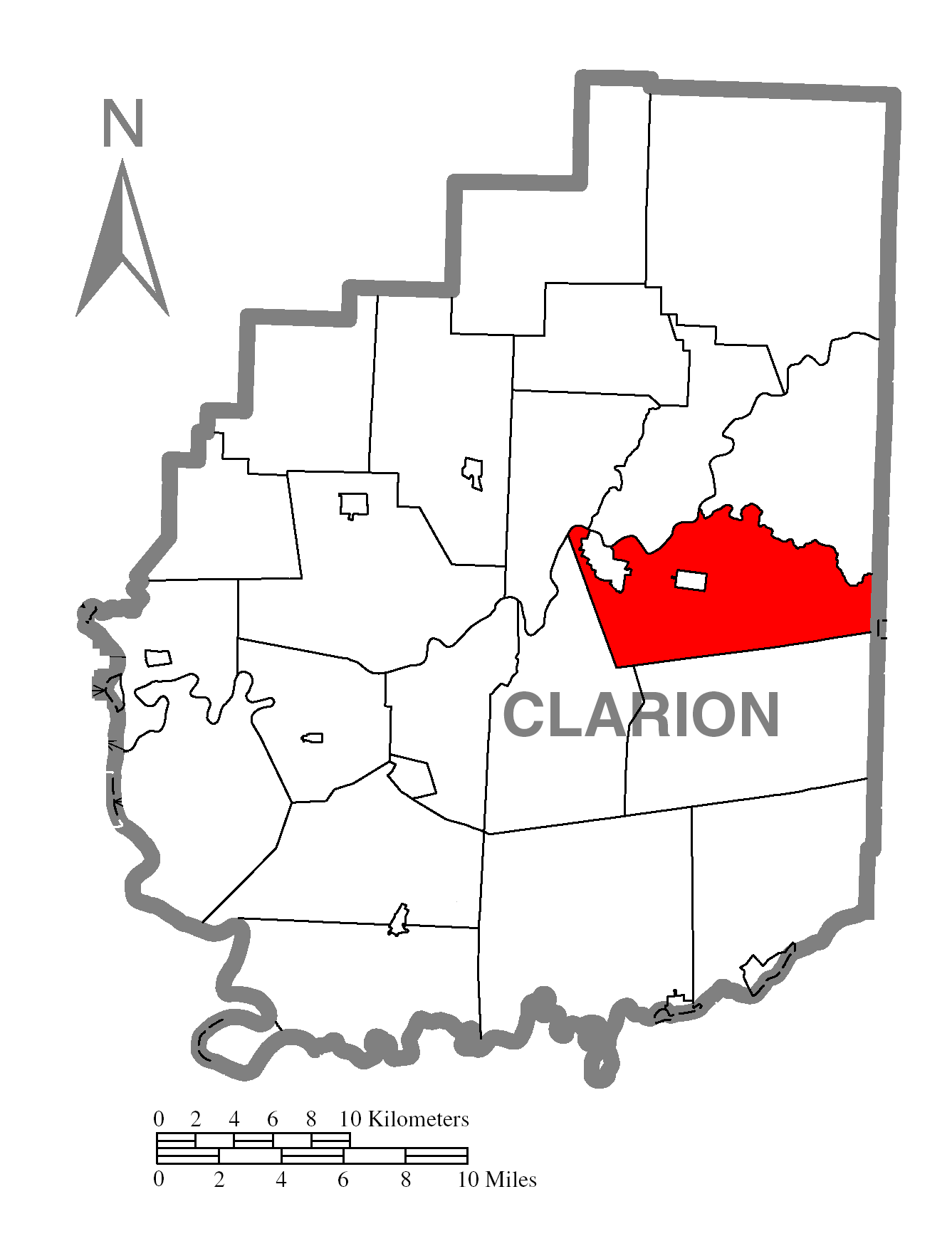 A map of Clarion County showing Clarion Township, Pennsylvania (alternate) highlighted on the map.